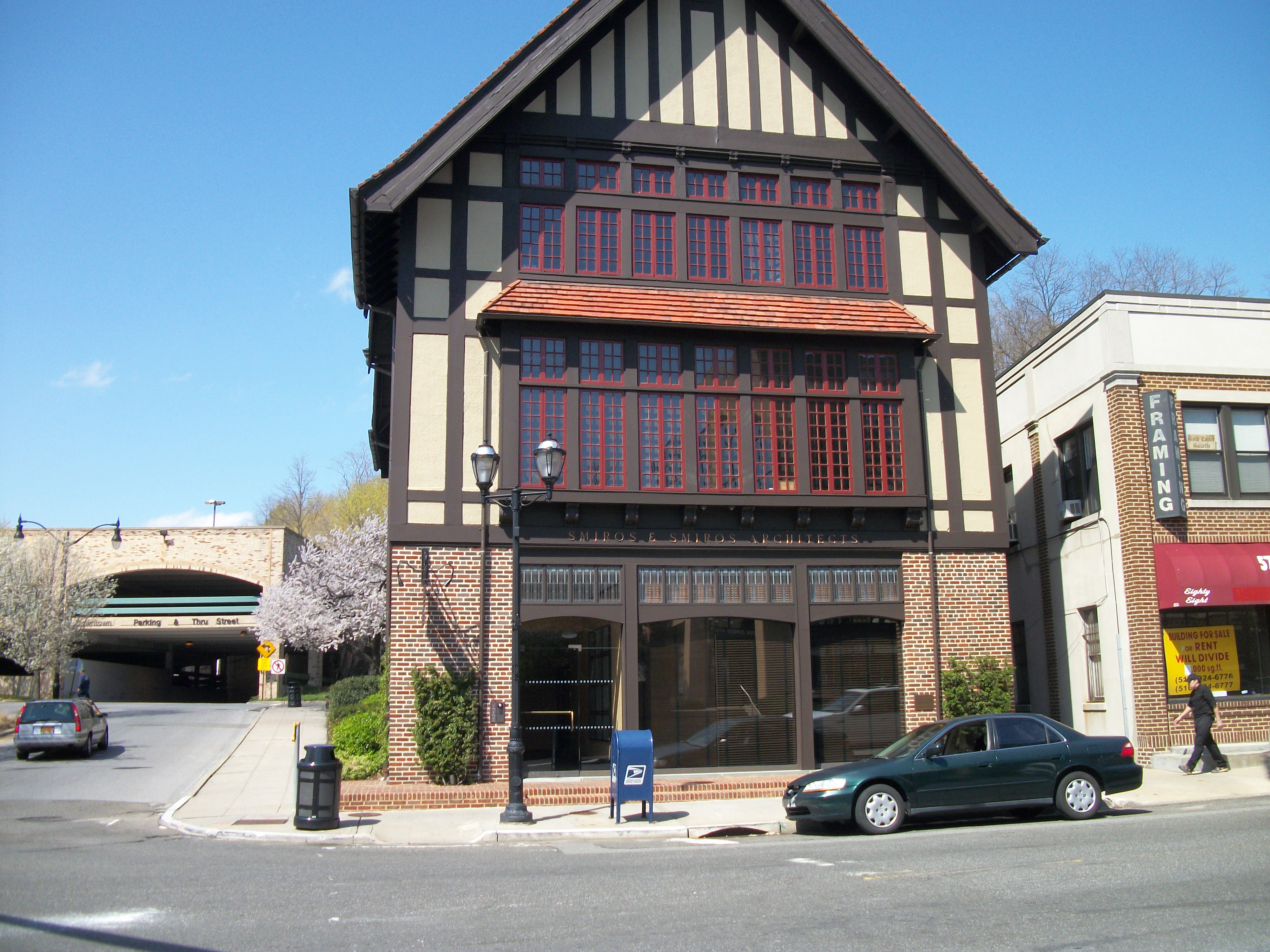 The original Glen Cove Post Office building on 51 Glen Street which was replaced with the existing building on 2 Glen Street in 1932, and is now the the headquarters of the Smiros & Smiros architectural firm.